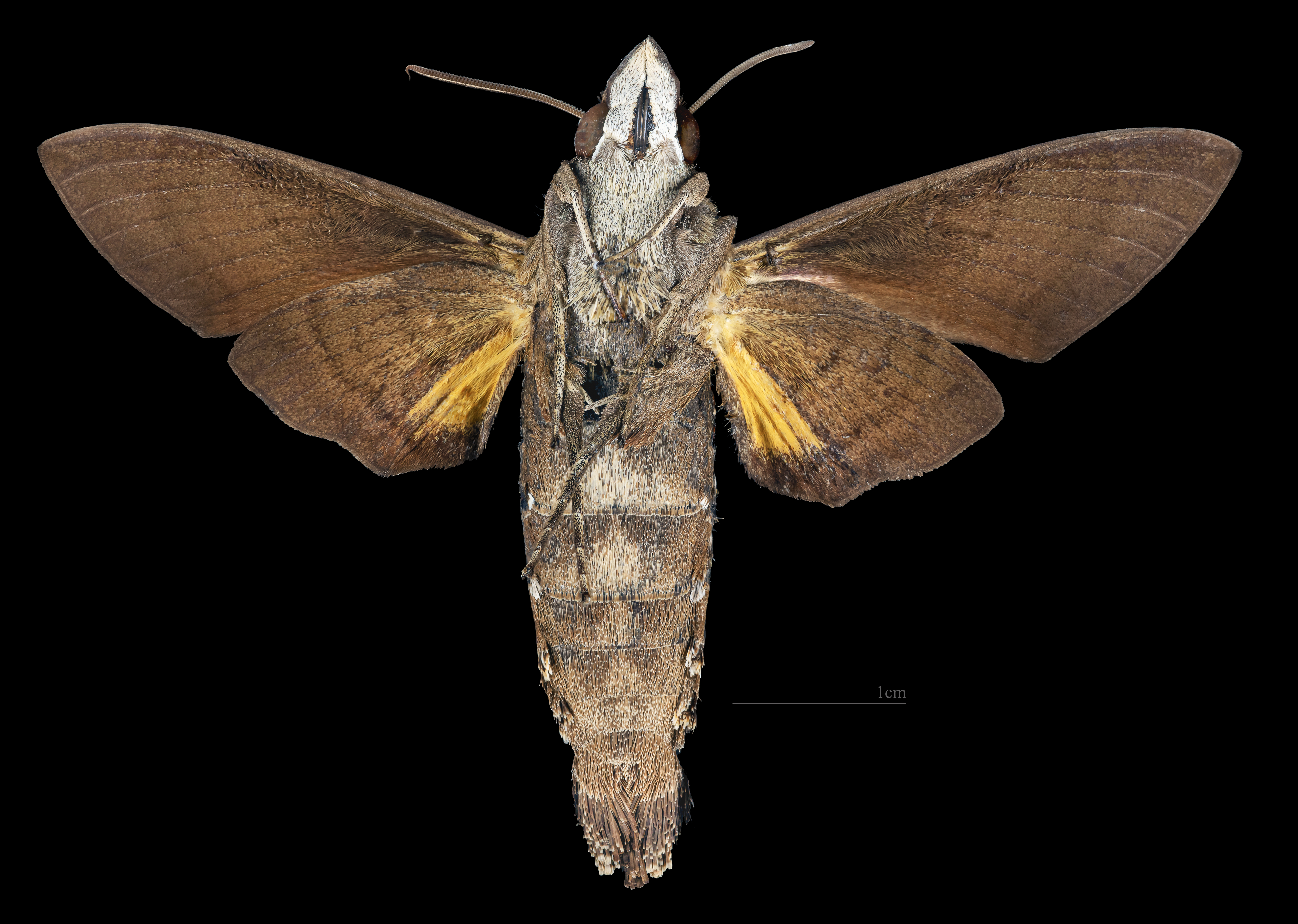 Macroglossum semifasciata - △ Ventral side Collection of the Mathematician Laurent Schwartz